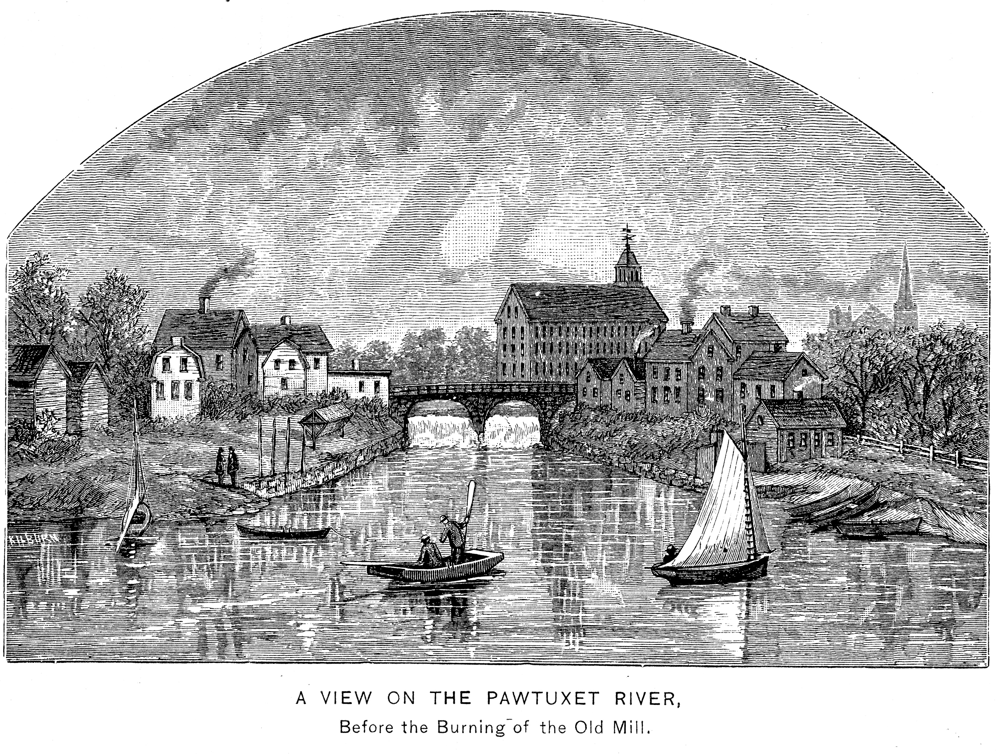 View on the Pawtuxet River, before the burning of the Old Mill.Engraving from The Providence Plantations for 250 Years, Welcome Arnold Greene (1886). Page 400.